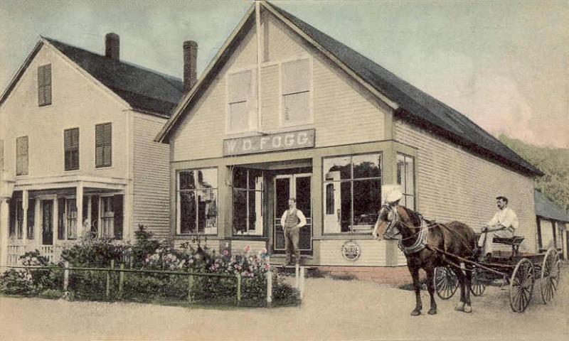 W. D. Fogg's Store, Hancock, NH; from a c. 1906 postcard.